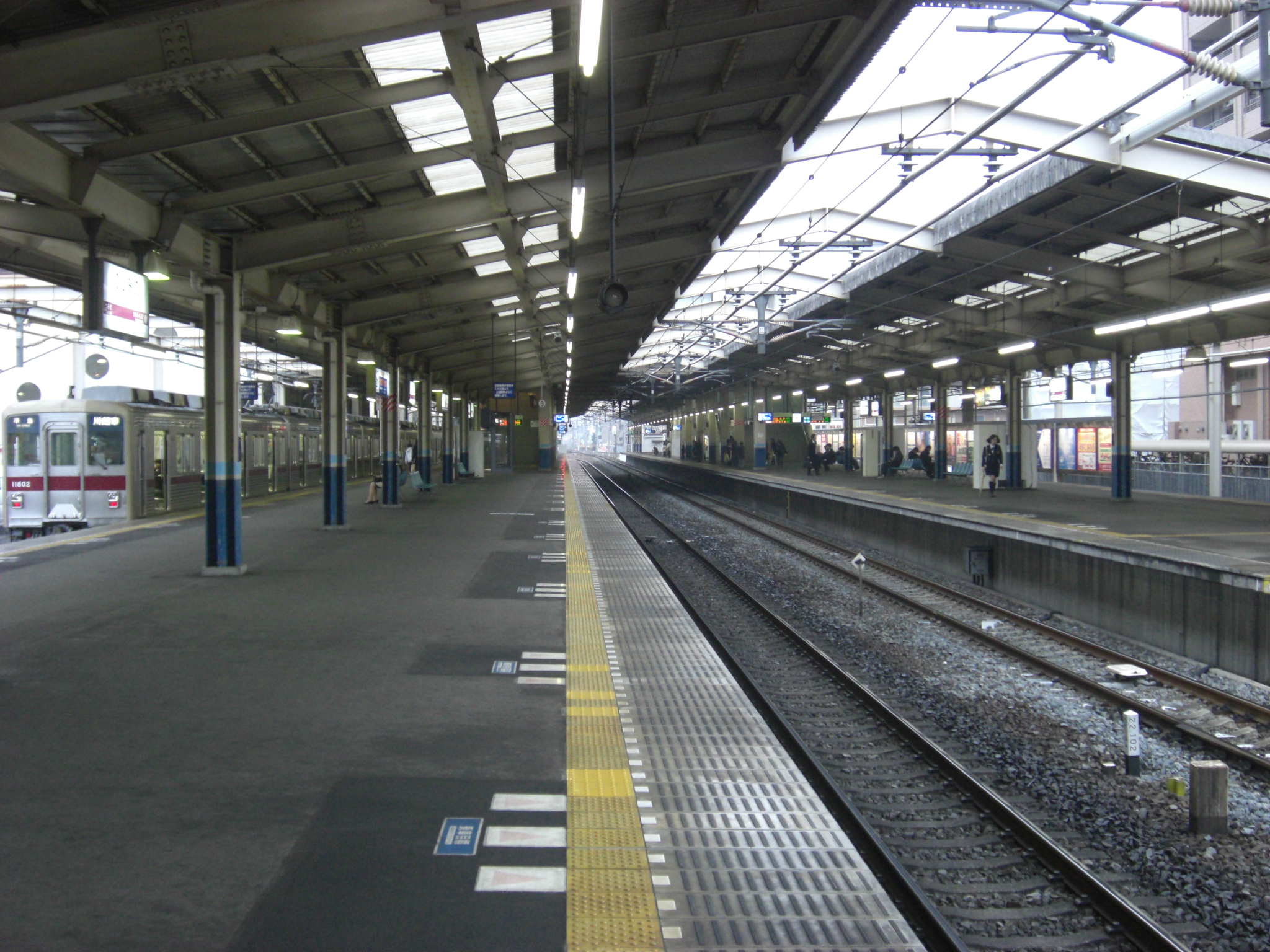 View of the platforms looking toward Kawagoe from the down platforms at Fujimino Station on the Tobu Tojo Line